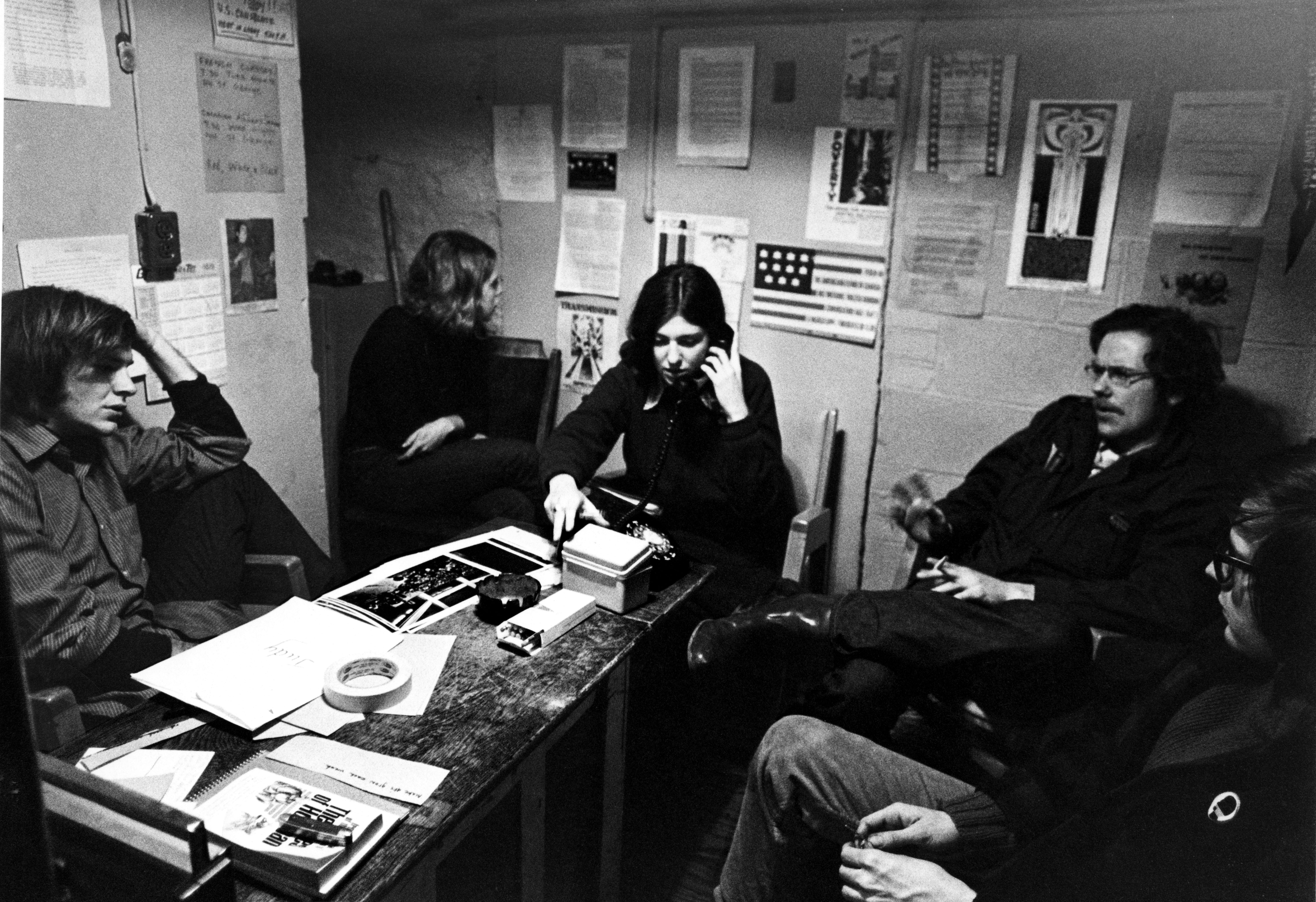 Draft-age Americans being counseled by Mark Satin (far left) at the Anti-Draft Programme office on Spadina Avenue in Toronto, August 1967. The front room was so crowded at the time that the counseling session here is taking place in one of the small side rooms. The Toronto Anti-Draft Programme was Canada's largest organization providing pre-emigration counseling and post-emigration services to American Vietnam War resisters.